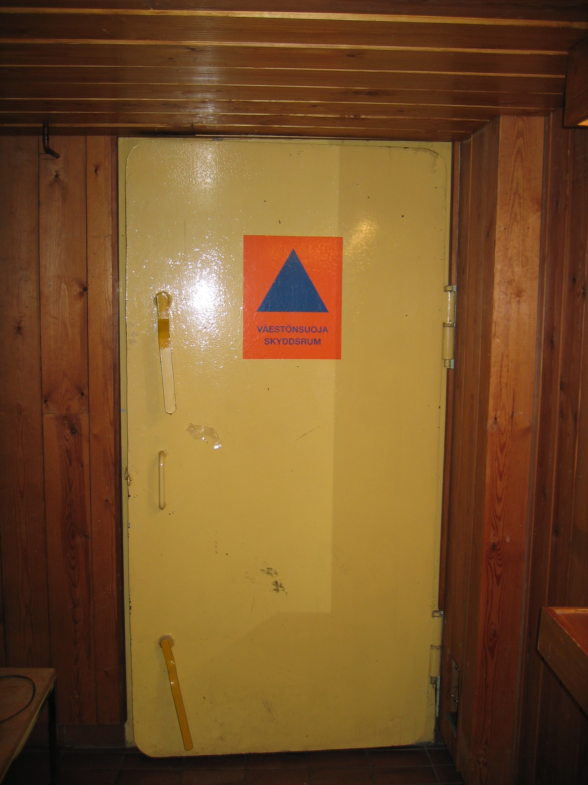 Door of Finnish class S1 population shelter room. Door is made of 20 mm thick steel and closes hermetically. This shelter room is located in below-ground basement of an office building.